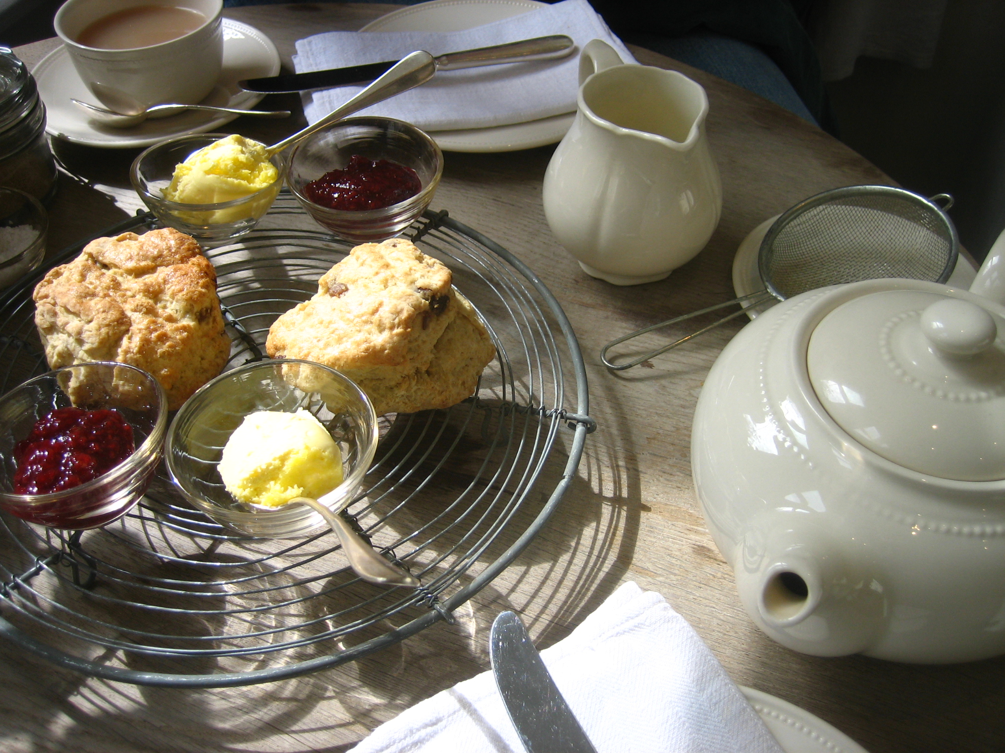 The custom of afternoon tea and scones has its origins in Imperial Britain.